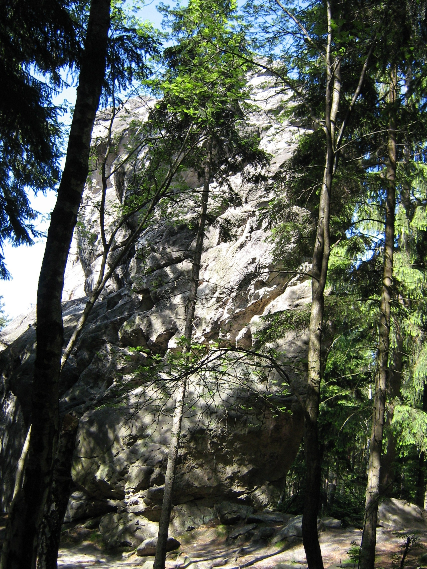 The Rock Reichenberger Turm in the Oberwegsteinen in the Lusatian Mountains.